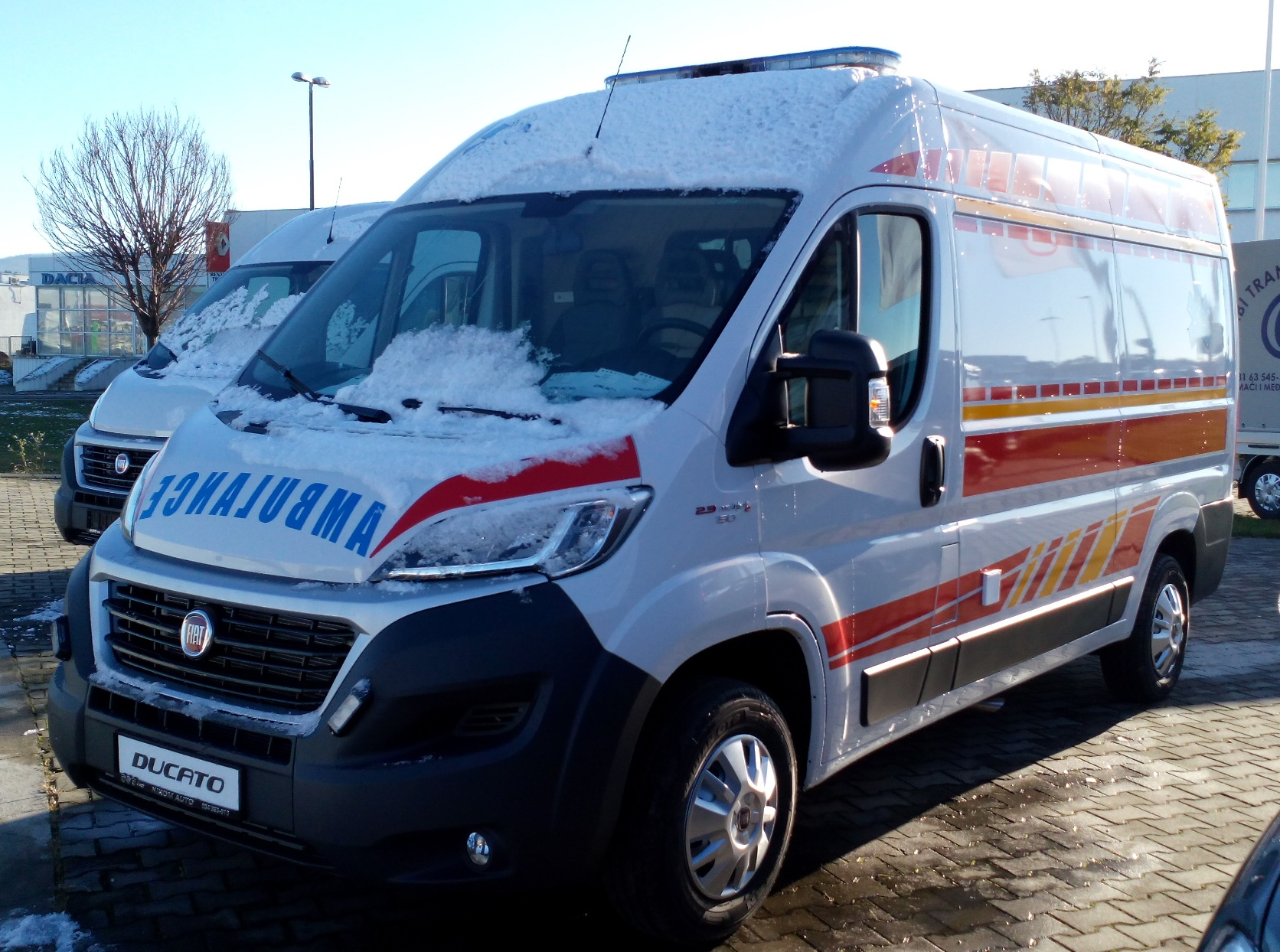 2018 Fiat Ducato 2.3 MultiJet2 Ambulance at Auto Expo Kragujevac 2017 Српски (ћирилица): 2018 Фијат Дукато 2.3 Мултиџет2 Хитна Помоћ на Ауто Експу Крагујевац 2017